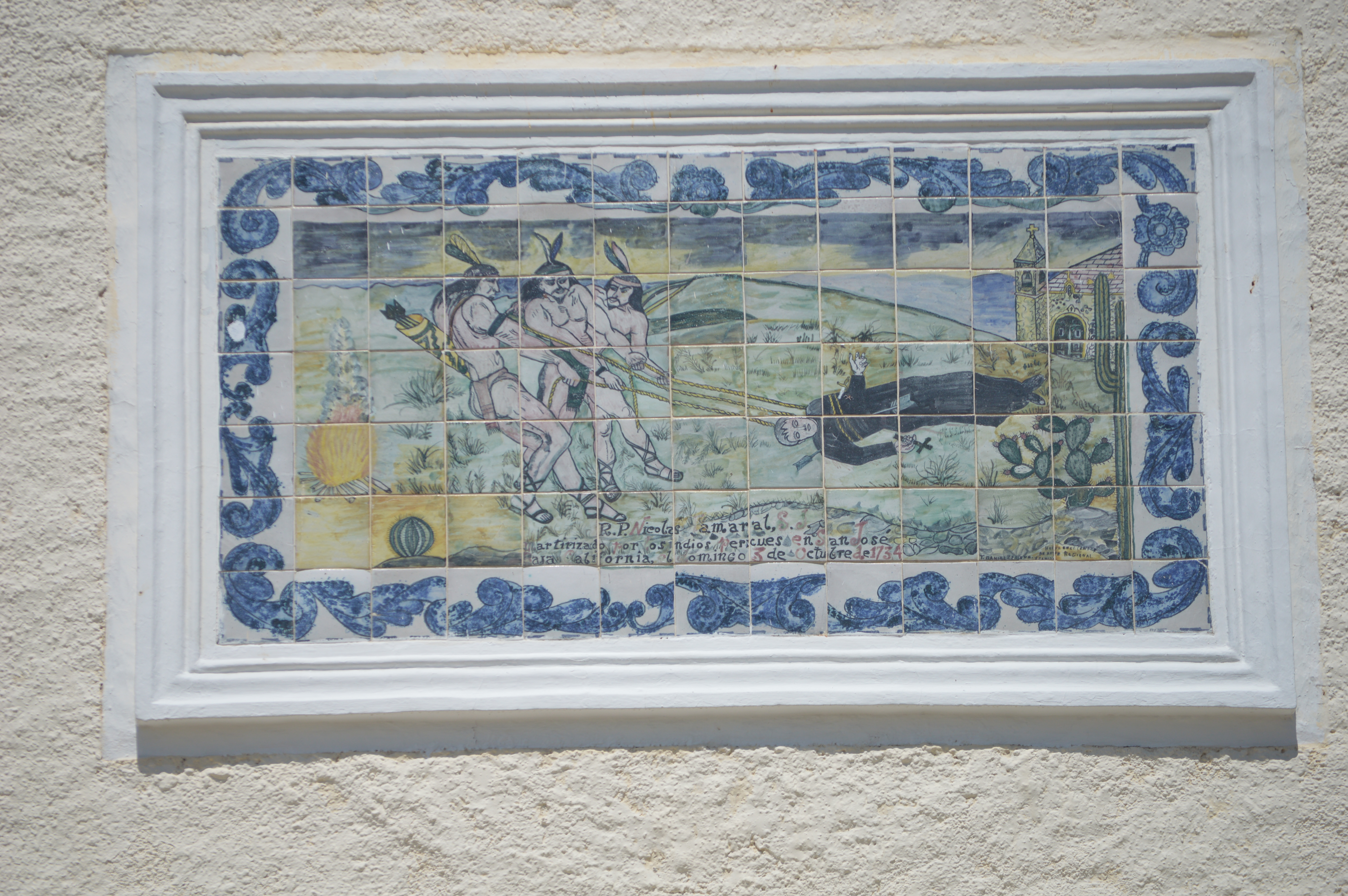 Tile mural depicting the martyrdom of mission founder Nicolas Tamaral on the facade of the San Jose del Cabo Parish in Baja California Sur